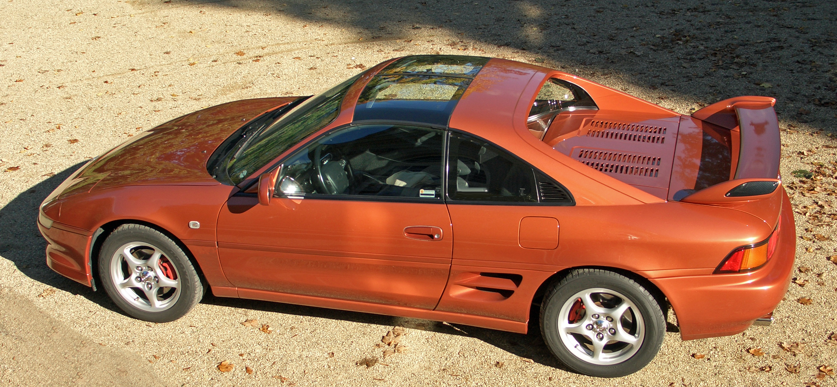 Side and top view of the EU model Toyota MR2 Rev 5 with 170 PS, first registration in Germany in Nov. 2000, removable two piece T-Bar glass roof, in orange mica, factory equipped with adjustable rear spoiler of the last model version Revision 5, factory 15" alloy wheels